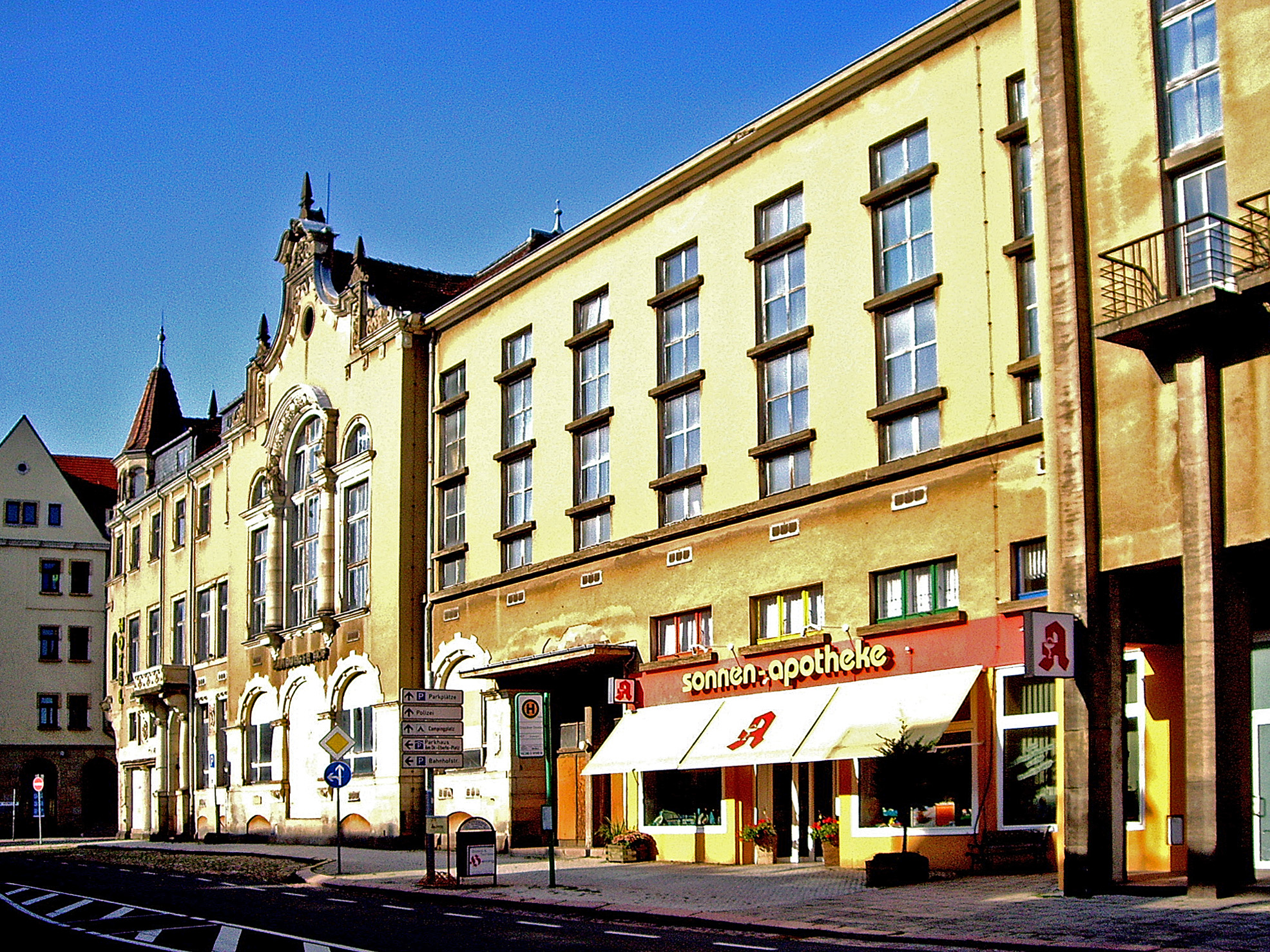 Hamburger Hof, Meissen